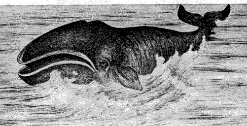 Balaena mysticetus. Picture from book.